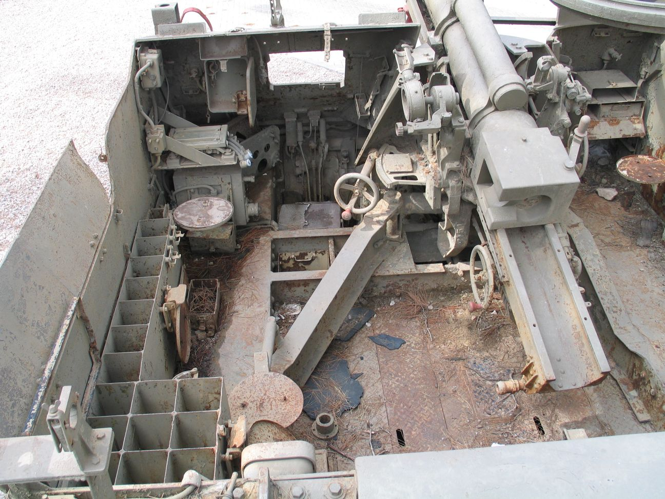 105mm Gun Motor Carriage M7 "Priest" in Beyt ha-Totchan, Zichron Yaakov, Israel.